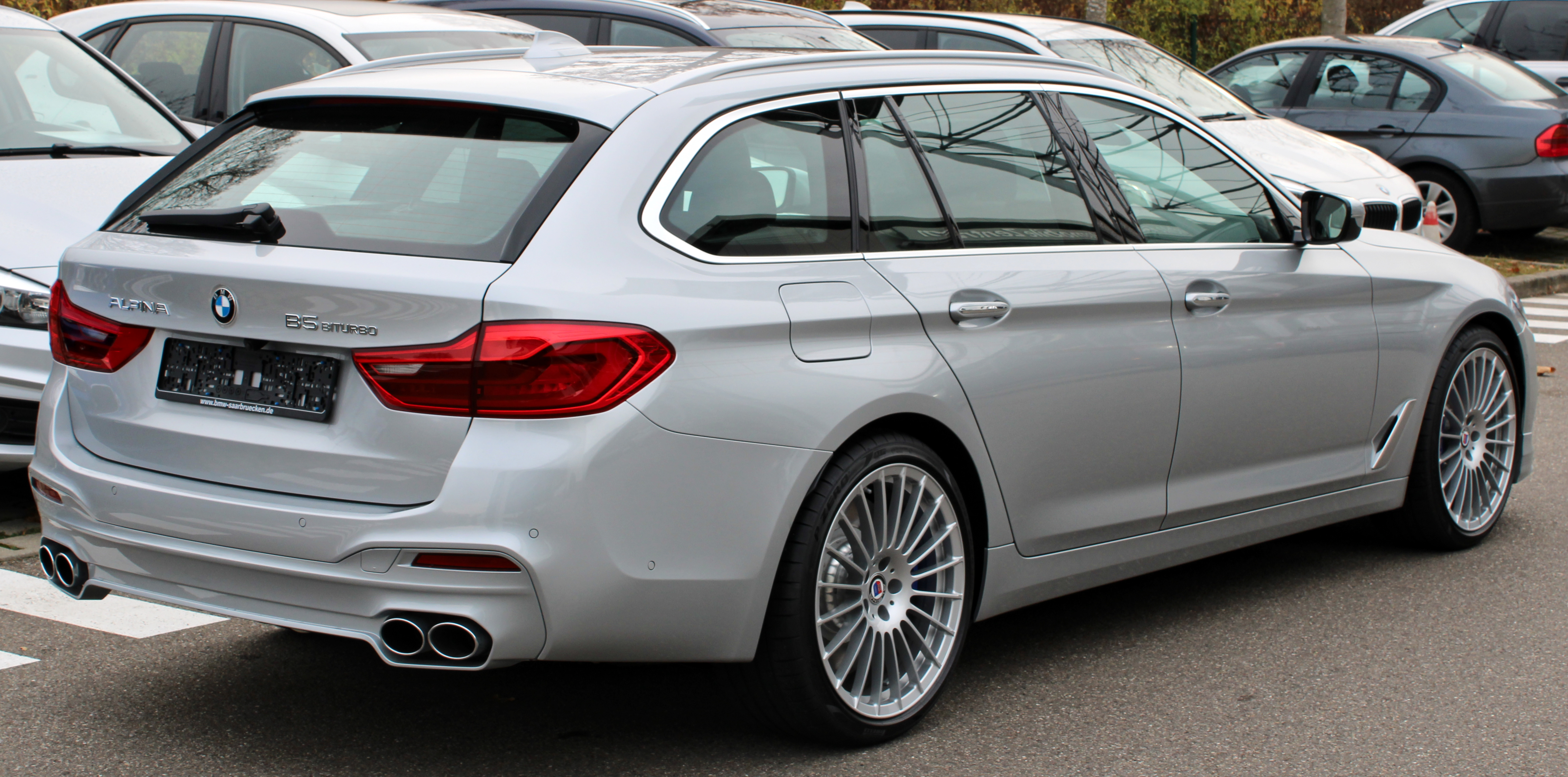 Alpina B5 Biturbo Touring in Stuttgart-Vaihingen